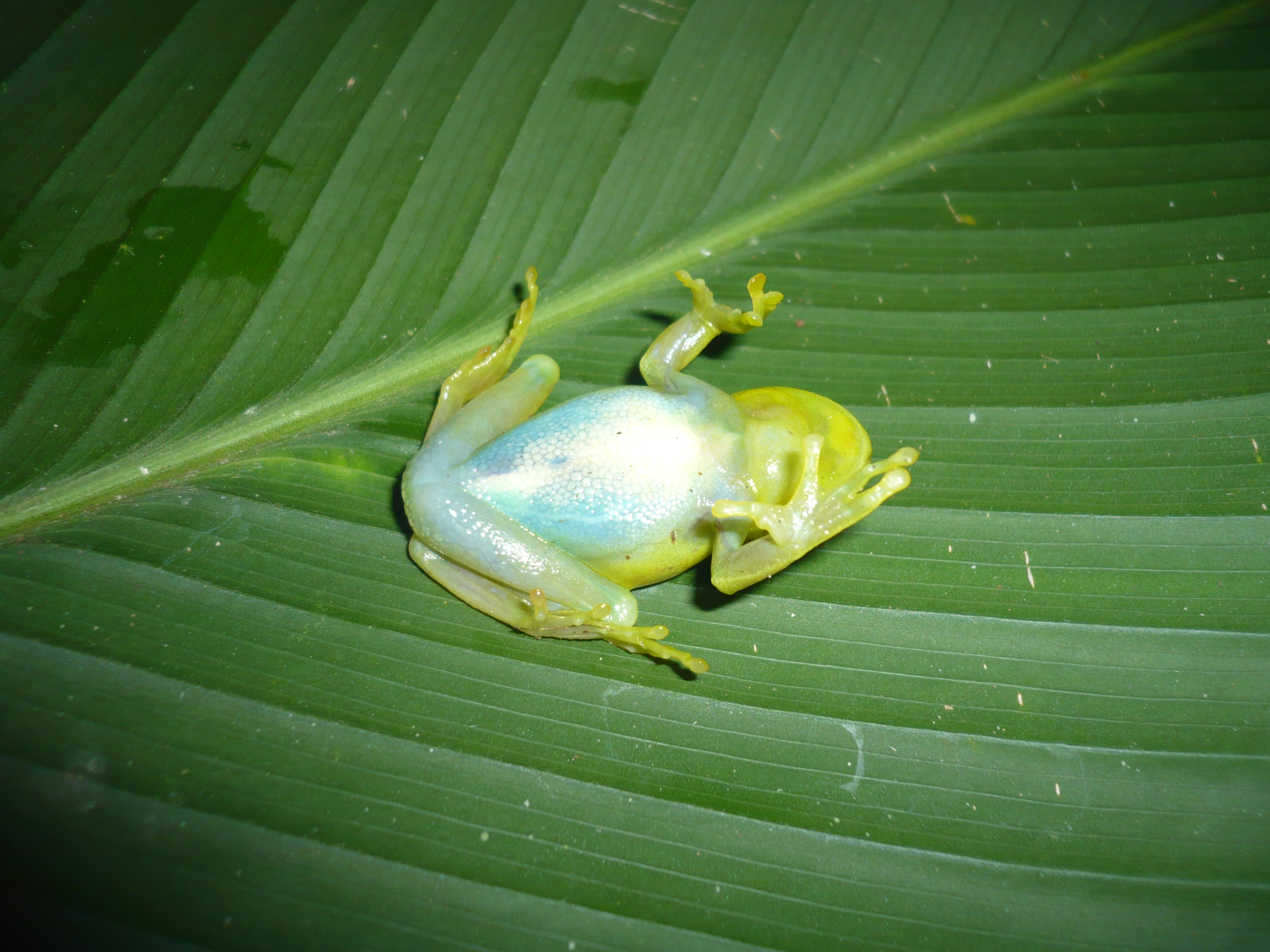 Hypsiboas punctatus in Madre de Dios, Peru. Male.